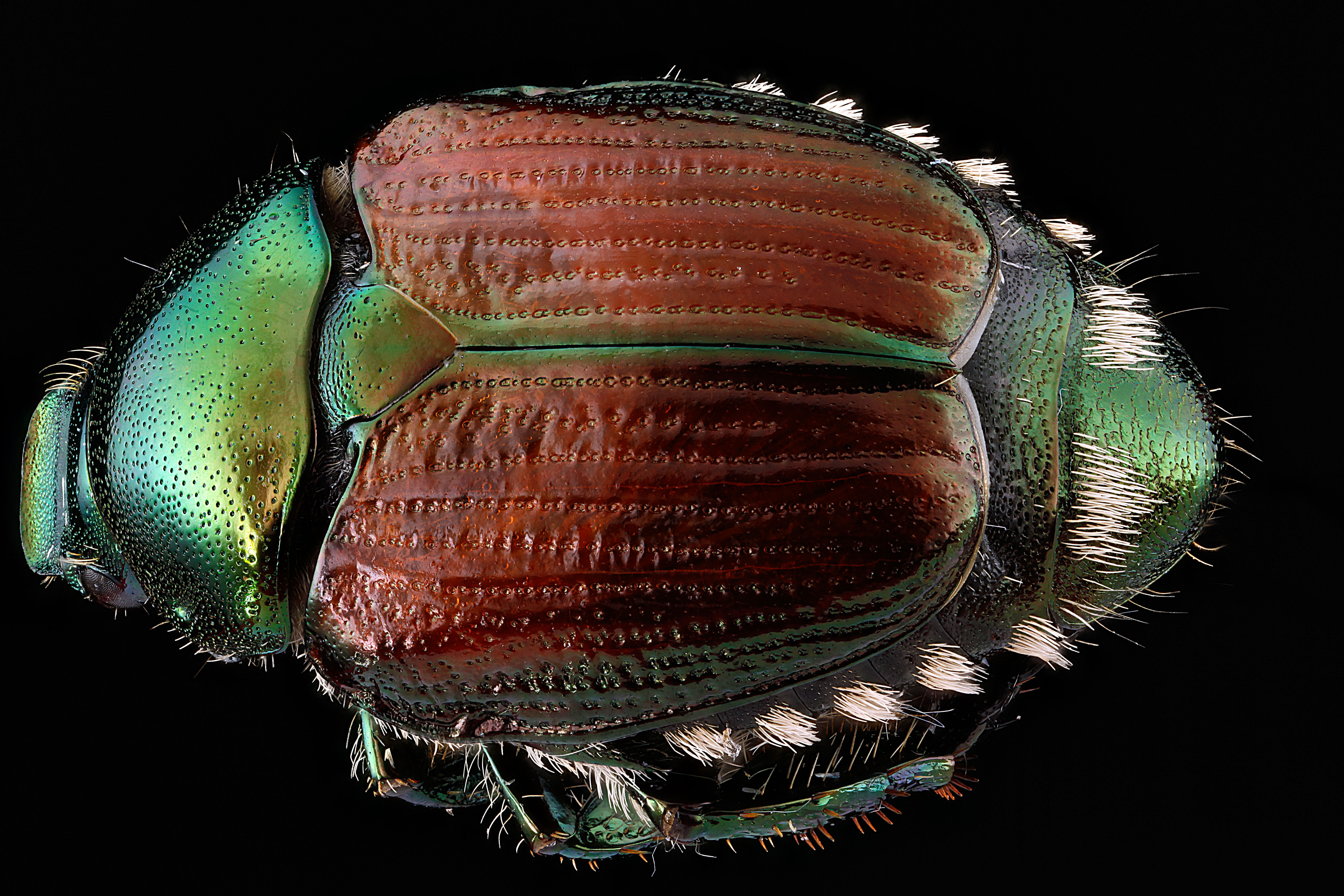 Japanese Beetle, Maryland, Beltsville, Popillia japonica, July 2012